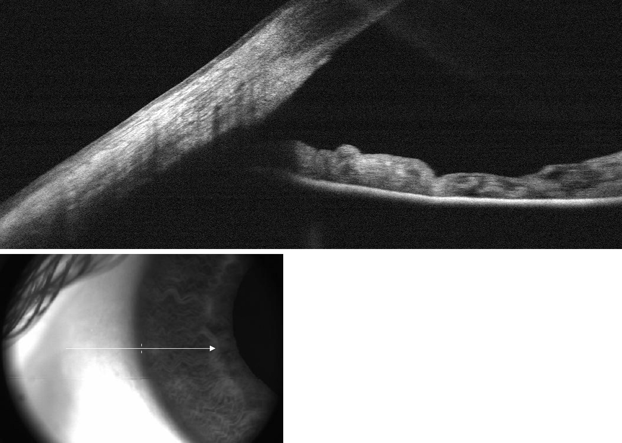 The anterior chamber angle of a 57 year old male (cross-section view). Sclear, scleral spur, trabecular meshwork, and iris can be seen.Iris is concave in this patient with a "4+" chamber angle depth. Below, a viewfinder shows which section of the eye has been imaged. This image is released to Wikimedia with patient consent. Imaged in-vivo with an Optovue iVue Spectral Domain Optical Coherence Tomographer (SD-OCT) at the office of Drs. Harry Wiessner, Steven Davis, Daniel Wiessner, and Eric Wiessner in Walla Walla, WA, USA.